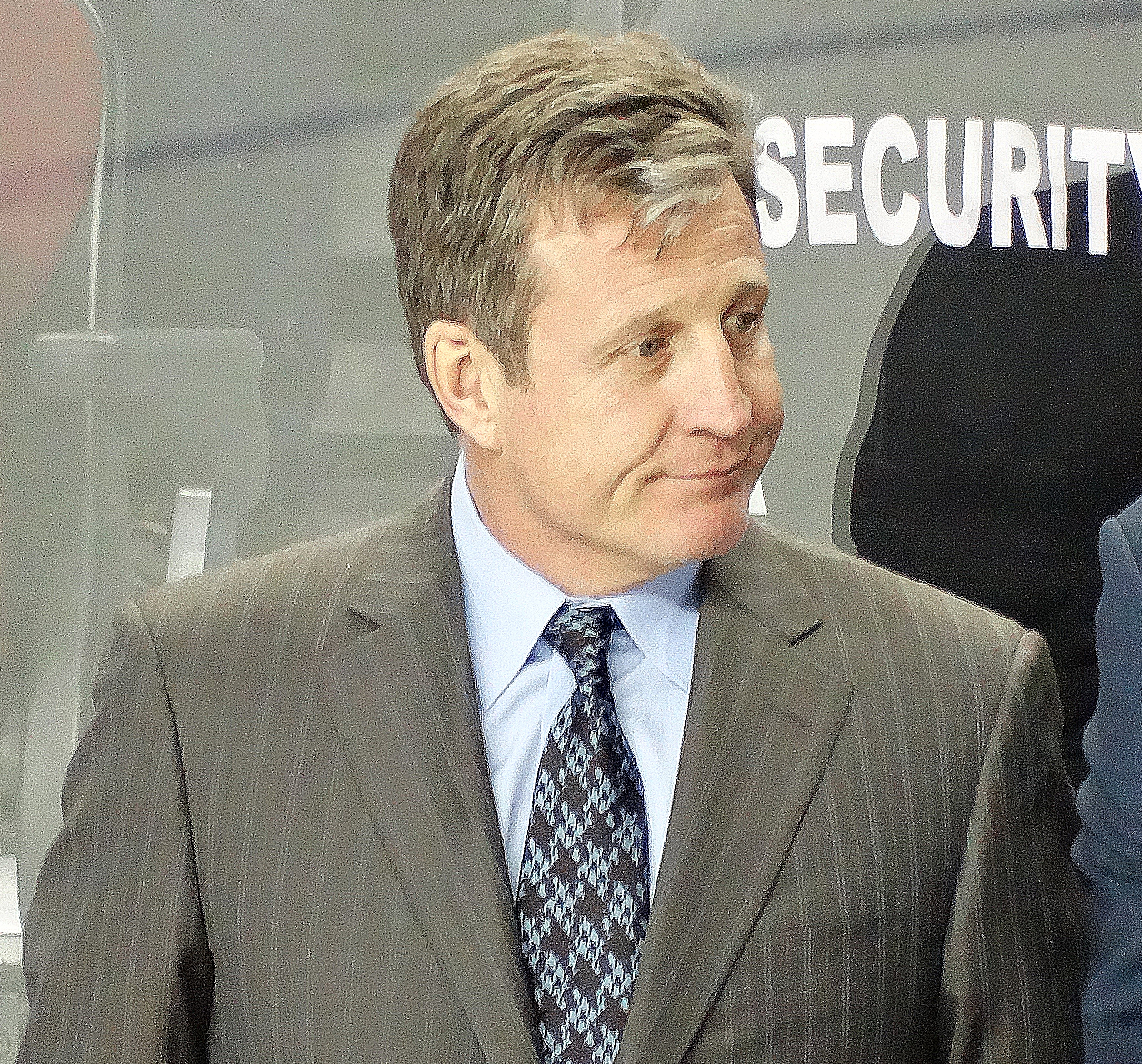 Mike Vernon is a former NHL goaltender who won the Stanley Cup in 1989 with the Calgary Flames, and the Stanley Cup and Conn Smythe Trophy in 1997 with the Detroit Red Wings. The CHL / NHL Top Prospects game at Scotiabank Saddledome on January 15, 2014 in Calgary, Alberta, Canada. Team Orr defeated Team Cherry 4-3.